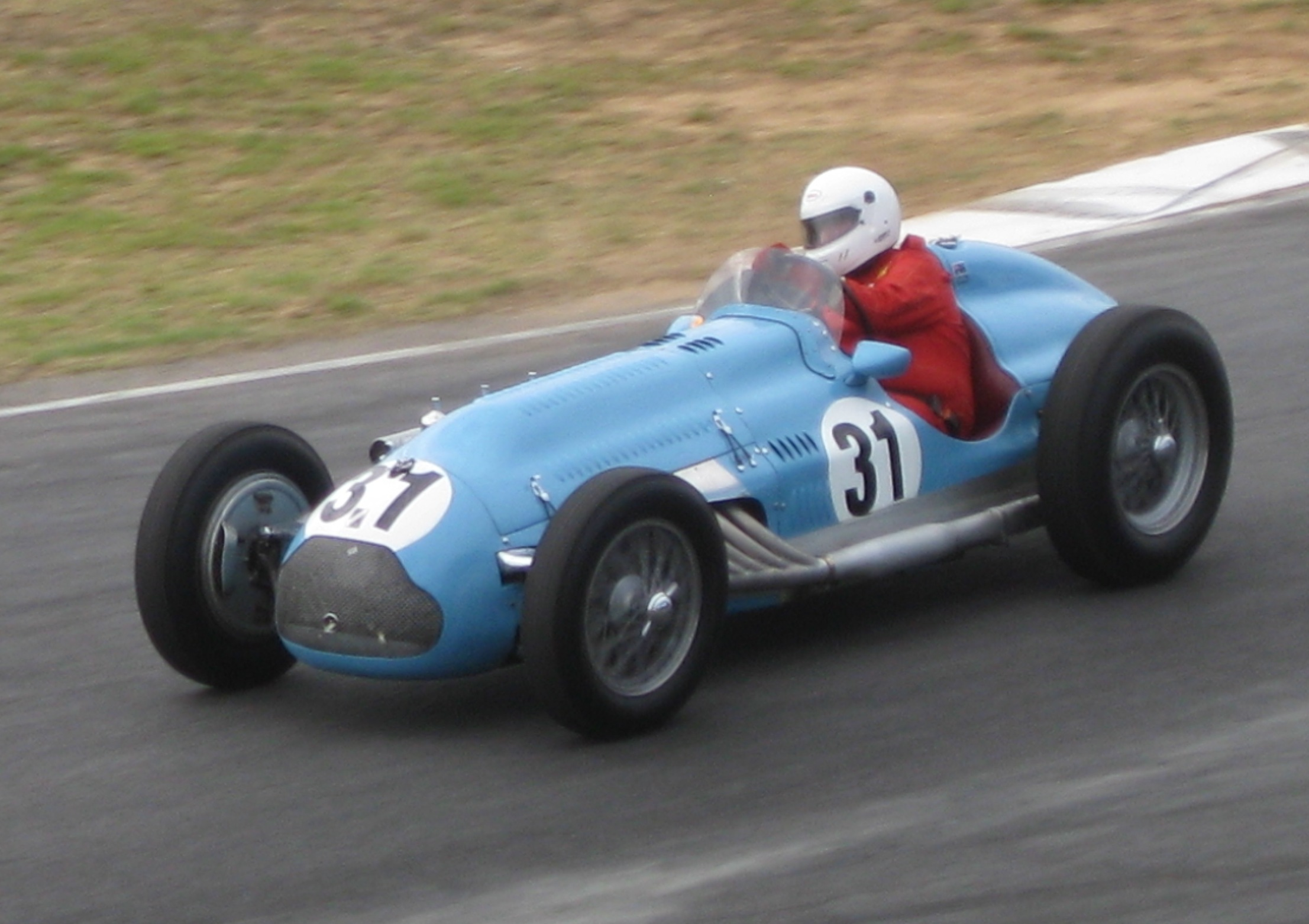 The 1948 Talbot Lago Type 26C, chassis number 110002, of Ron Townley at Mallala Motor Sport Park on 3 April 2010